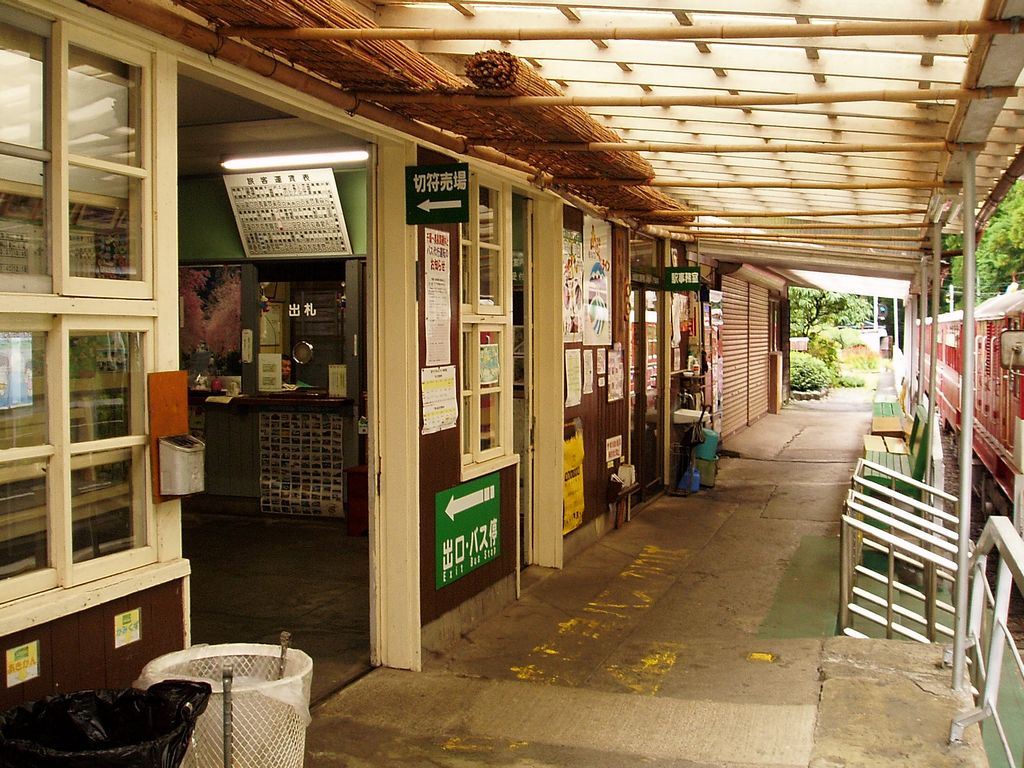 Okuizumi Sta.